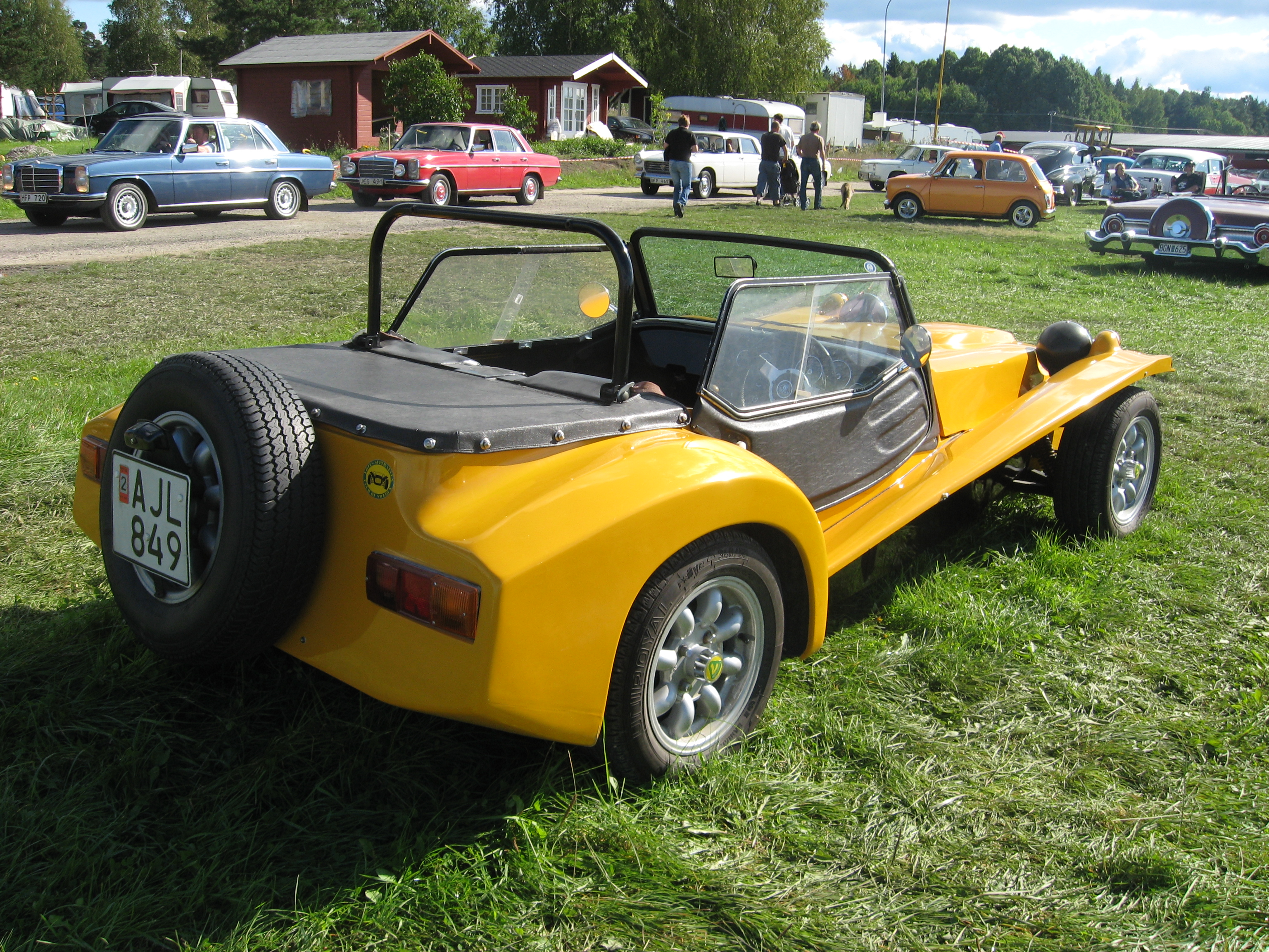 Lotus 7 Series 4